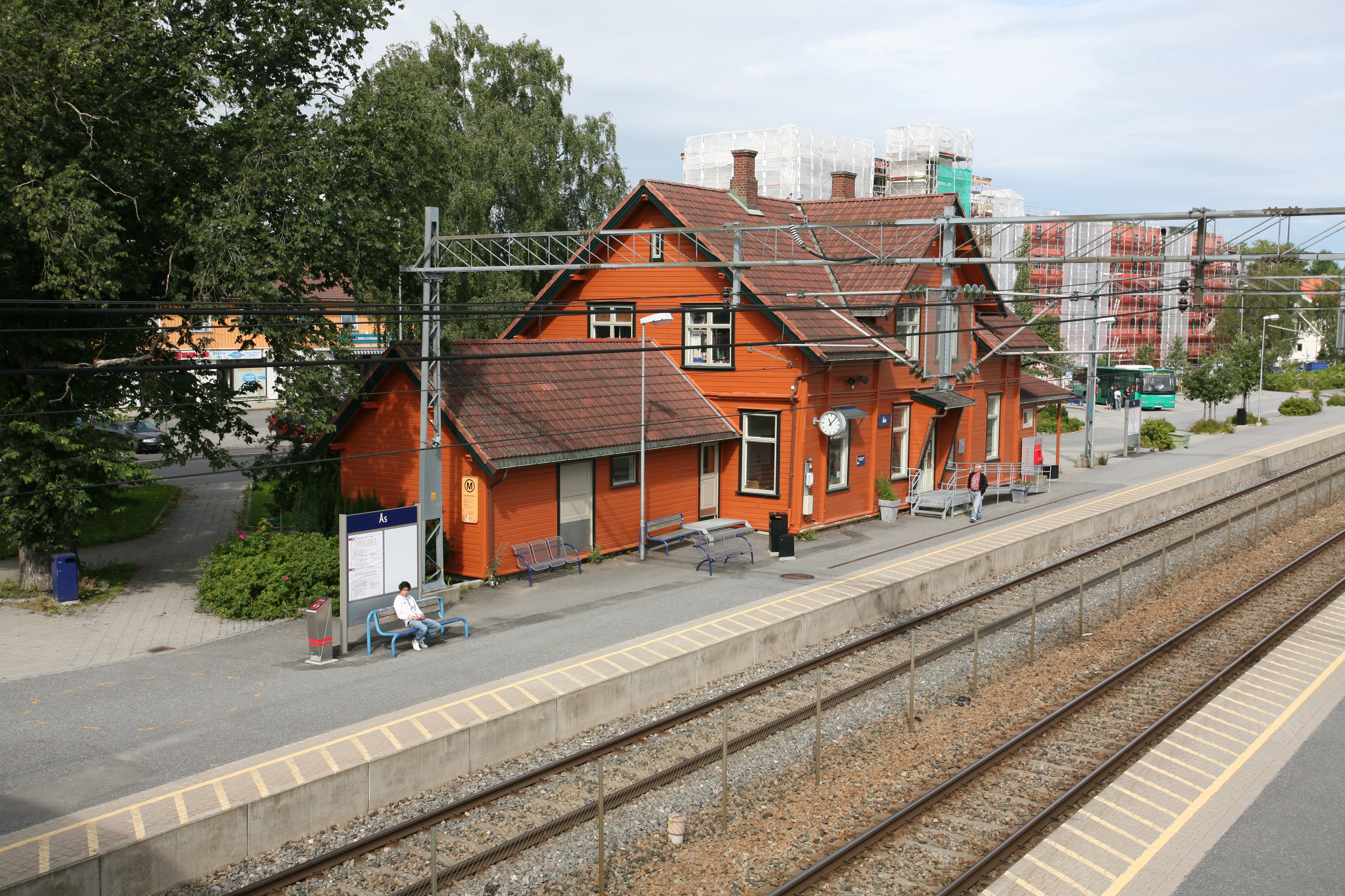 Picture of Ås Railway Station (Norway)